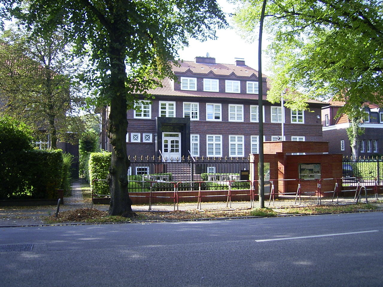 Consulate-General of Iran in Hamburg, Winterhude